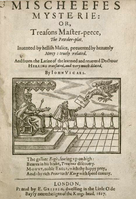 Title page: Mischeefes mysterie, or, Treasons master-peece, the powder-plot, inuented by hellish malice, preuented by heauenly mercy, by Francis Herring (d. 1628). Translated into English by John Vicars. Printed in London by E. Griffin, 1617. STC 13247, Houghton Library, Harvard University